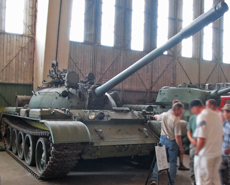 T-55A tank at the Technik-Museum Pütnitz in Germany